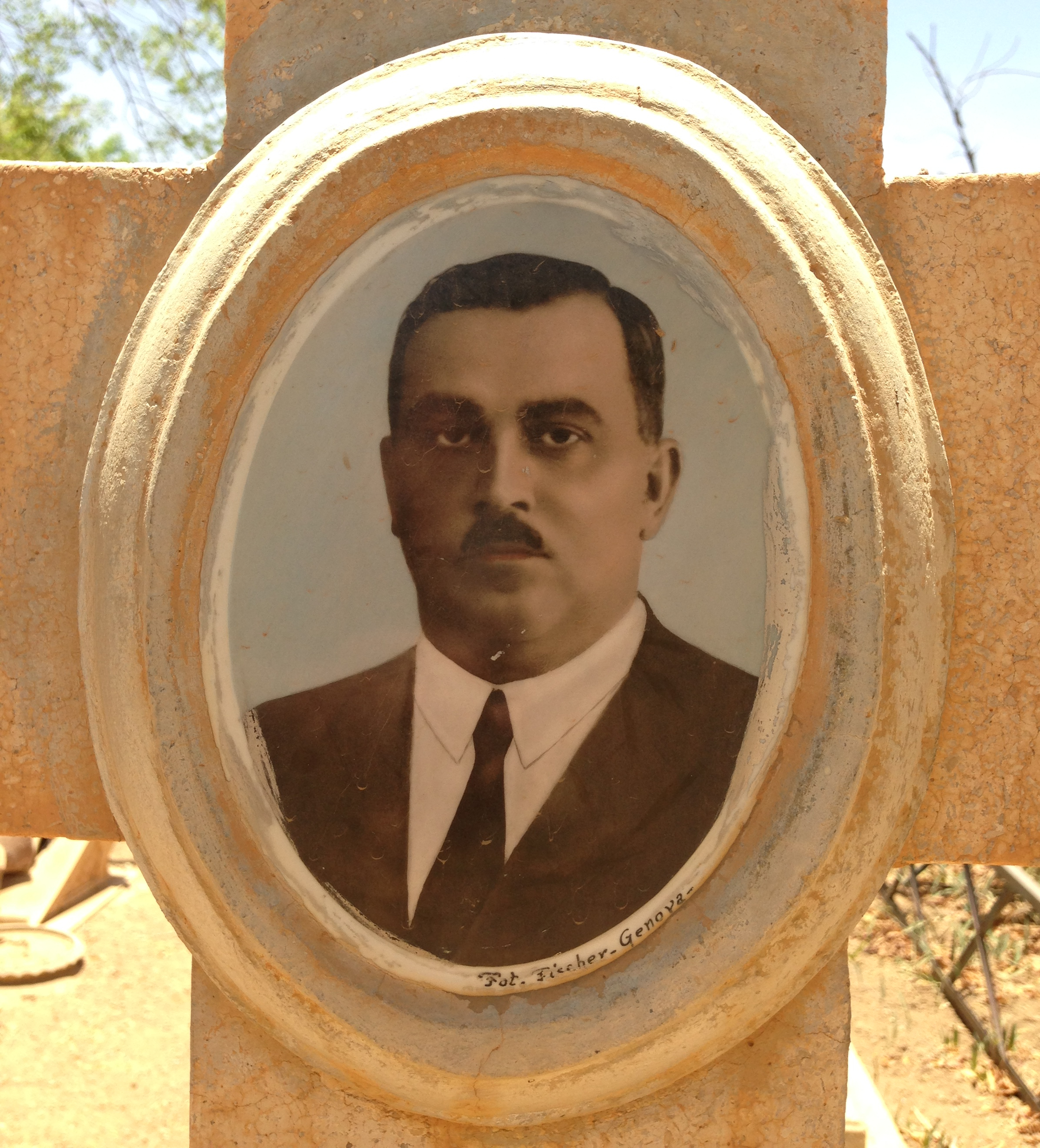 Portrait photo of the deceased on a grave in the Greek section of the Christian cemetery in Khartoum, Sudan